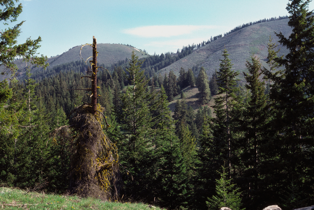 Chumstick Mountain, Eniat Range of the North Cascades, Washington from a primitive USFS road that climbs to the summit.